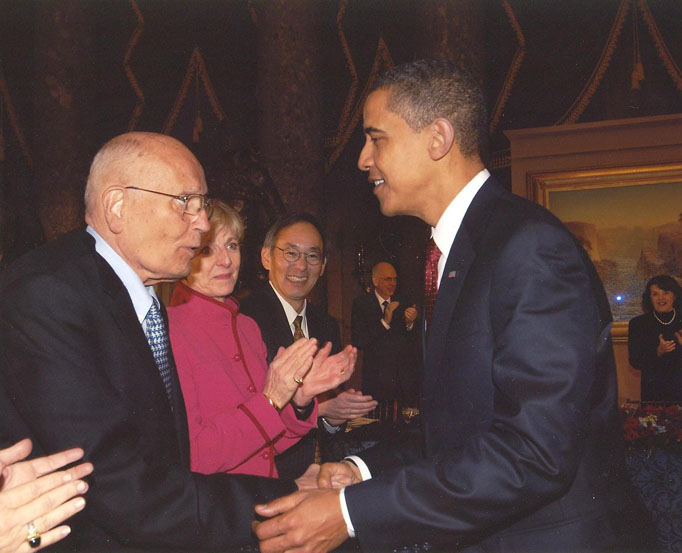 Dingell congratulating Obama at his inauguration